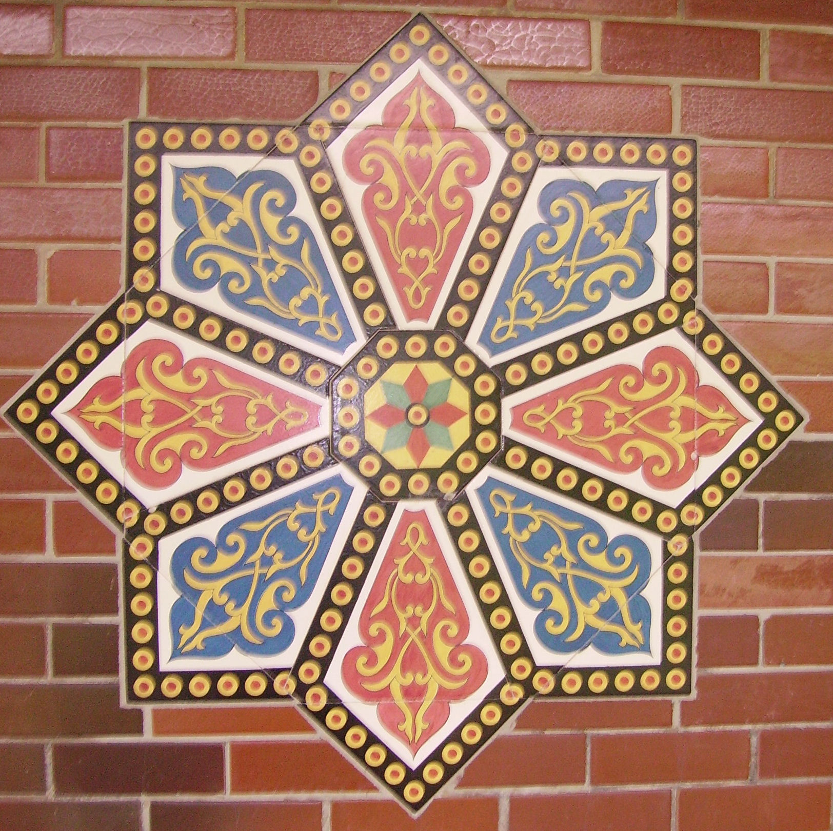 zoological garden and botanical garden Wilhelma in Stuttgart, Germany